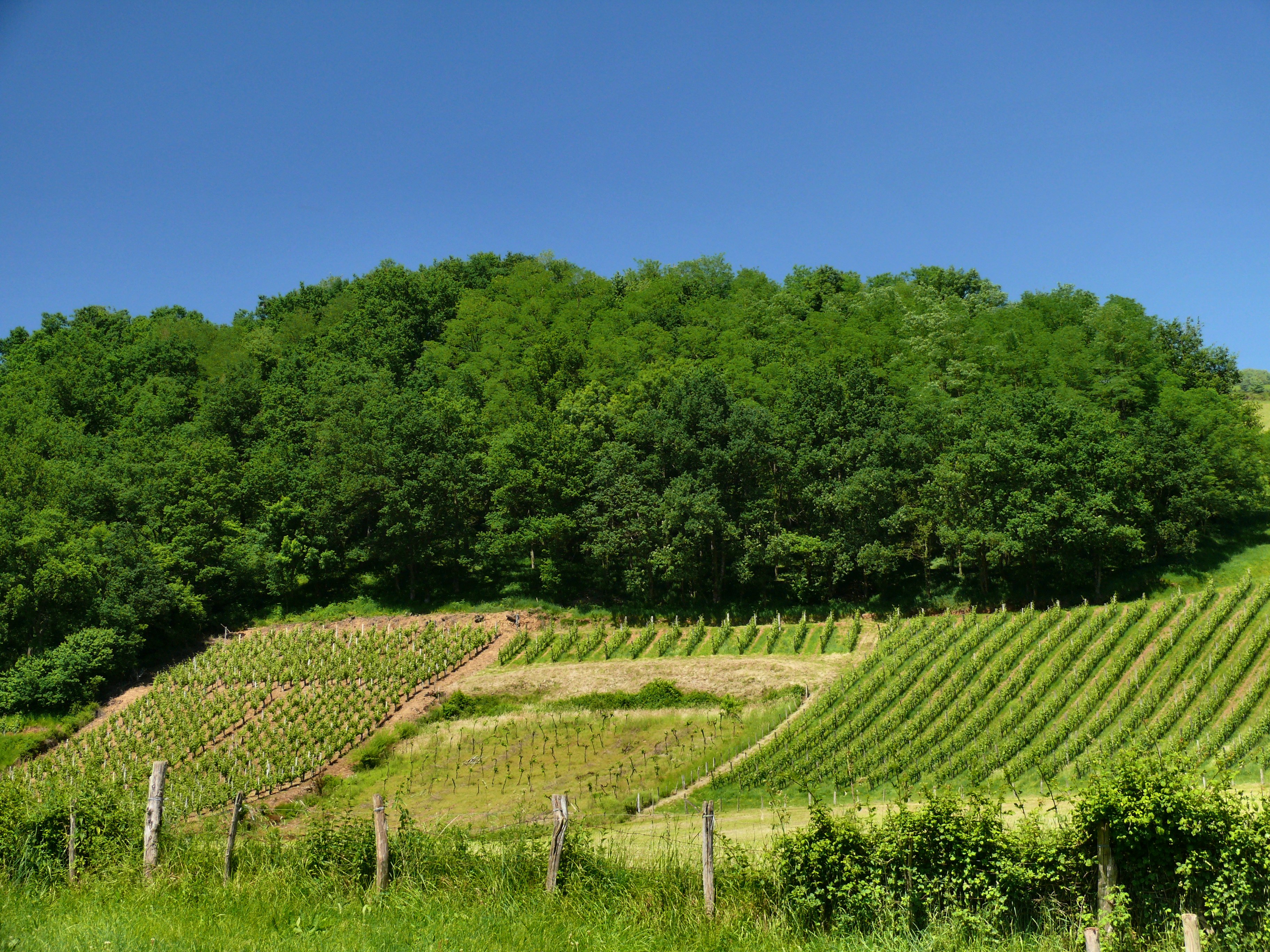 Wineyard